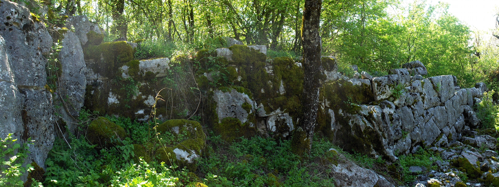 Palaiokastro, remains of an ancient fortification at Skamneli, Zagori, Epirus, Greece.